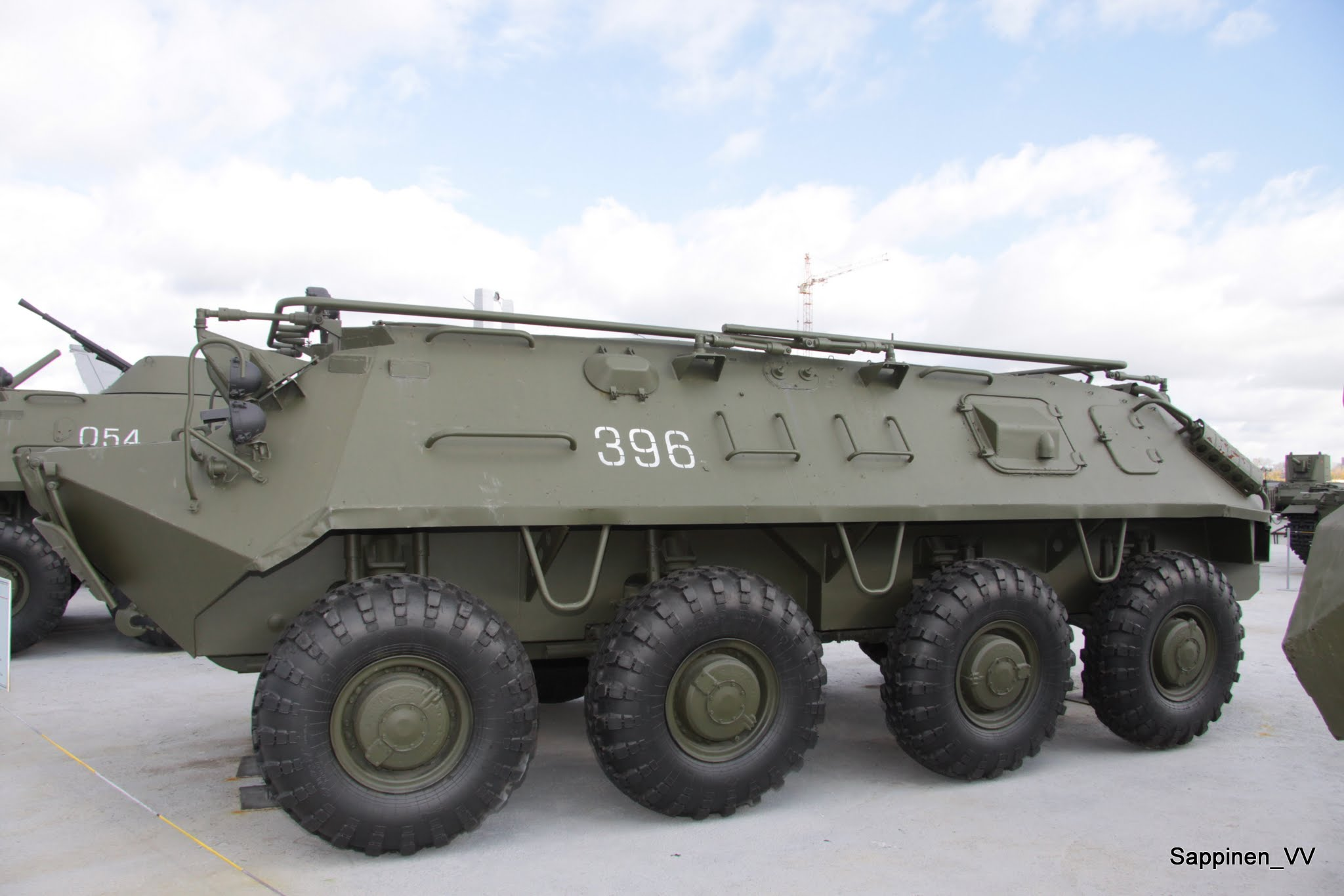 Verkhnyaya Pyshma Tank Museum 2012